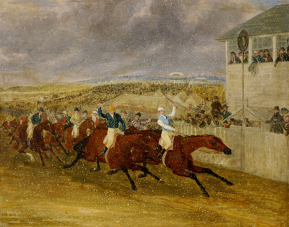 The 1839 Epsom Derby Bloomsbury beating Deception in a snowstorm. Painting by James Pollard (1797-1867). Artist has been dead for 144 yeers.